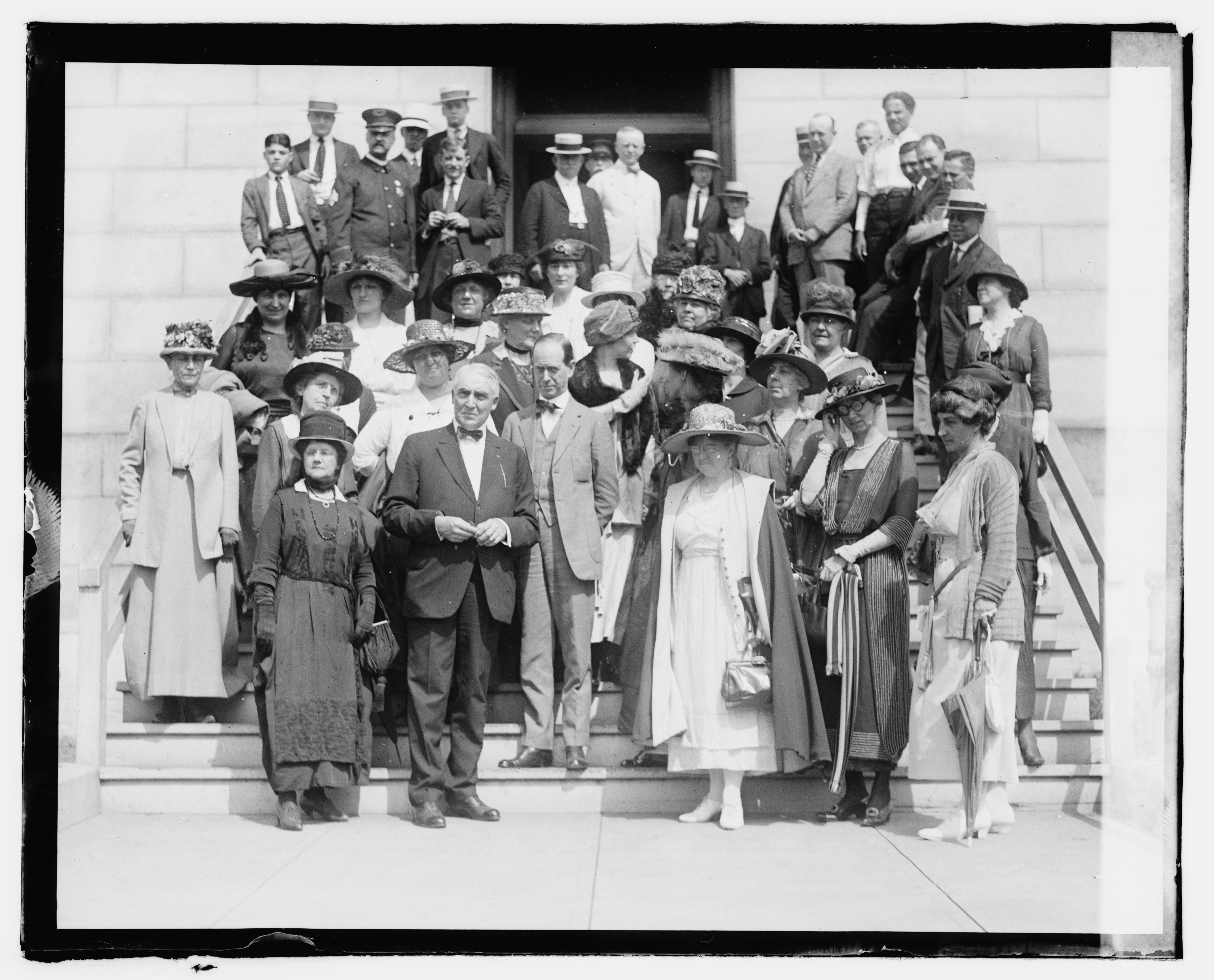 Title: Harding, suffragette group Abstract/medium: 1 negative : glass ; 4 x 5 in. or smaller